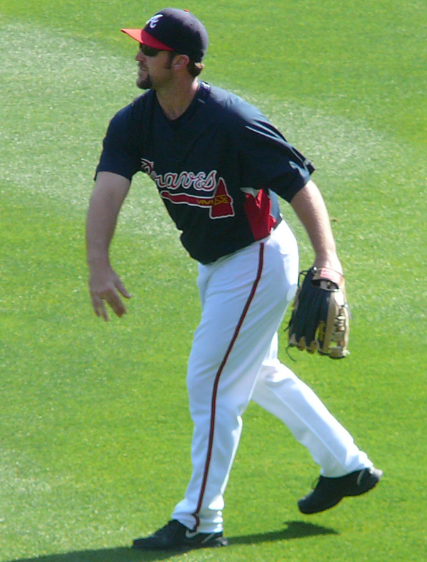 User:Chrisjnelson agreed to license this image of Royce_Ring.jpg under a free attribution license. Any use of this image must be attributed; this means that Photo by :en:User:Chrisjnelson|Chris Nelson should be in the picture caption. 21:11, 23 April 2008 . . Chrisjnelson . . 600×790 (475 KB)